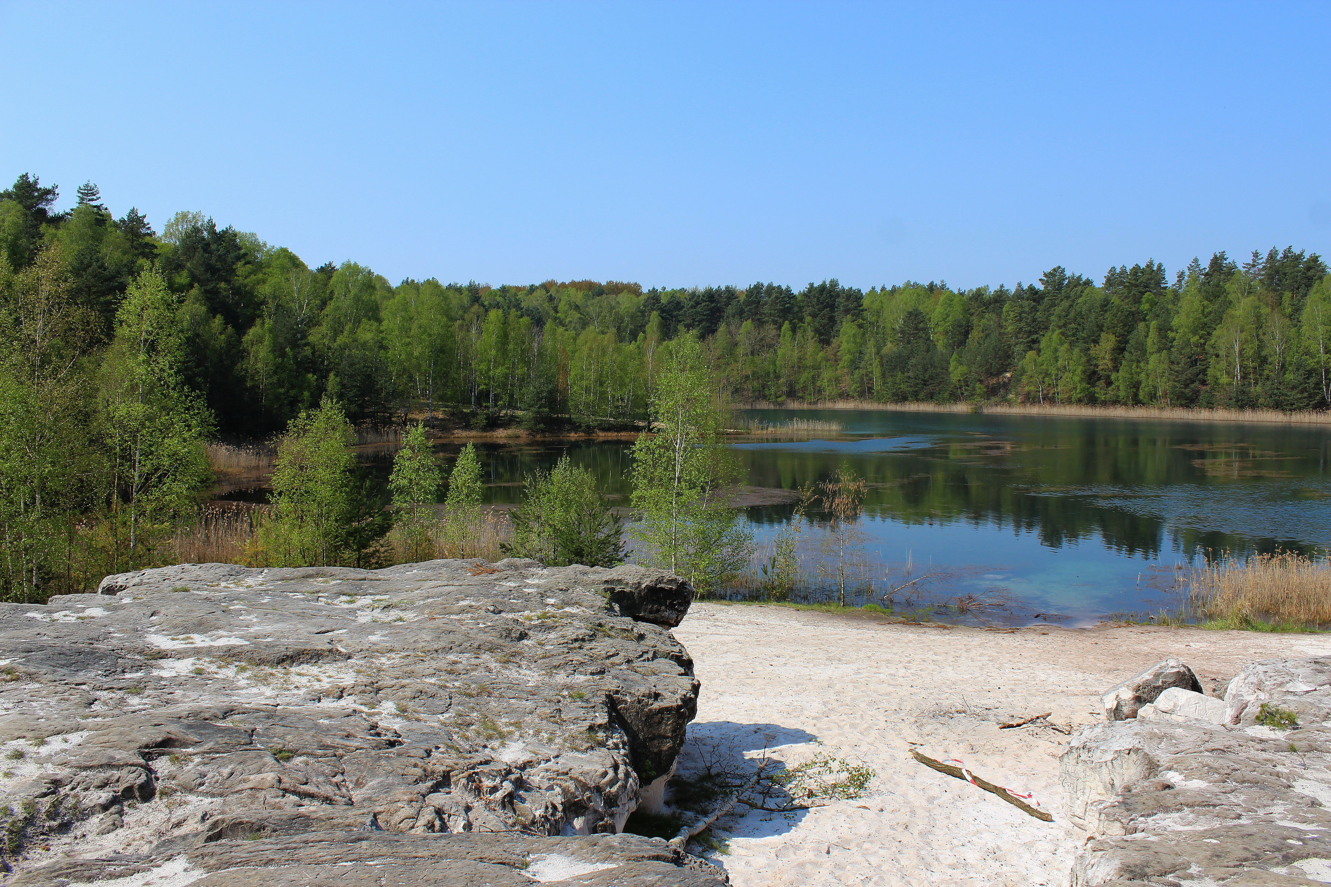 Silicified quartz sands in the abandoned mine Gotthold near Hohenleipisch. Verkieselte Quarzsande.